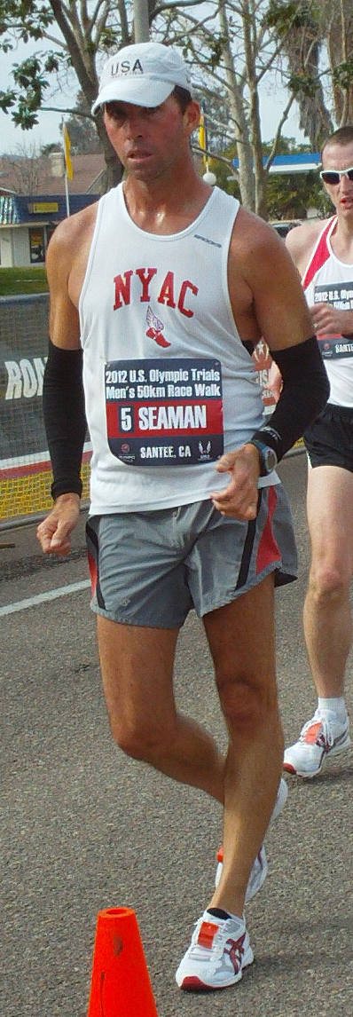 Tim Seaman at the 2012 United States Olympic Trials 50K Racewalk in Santee, California